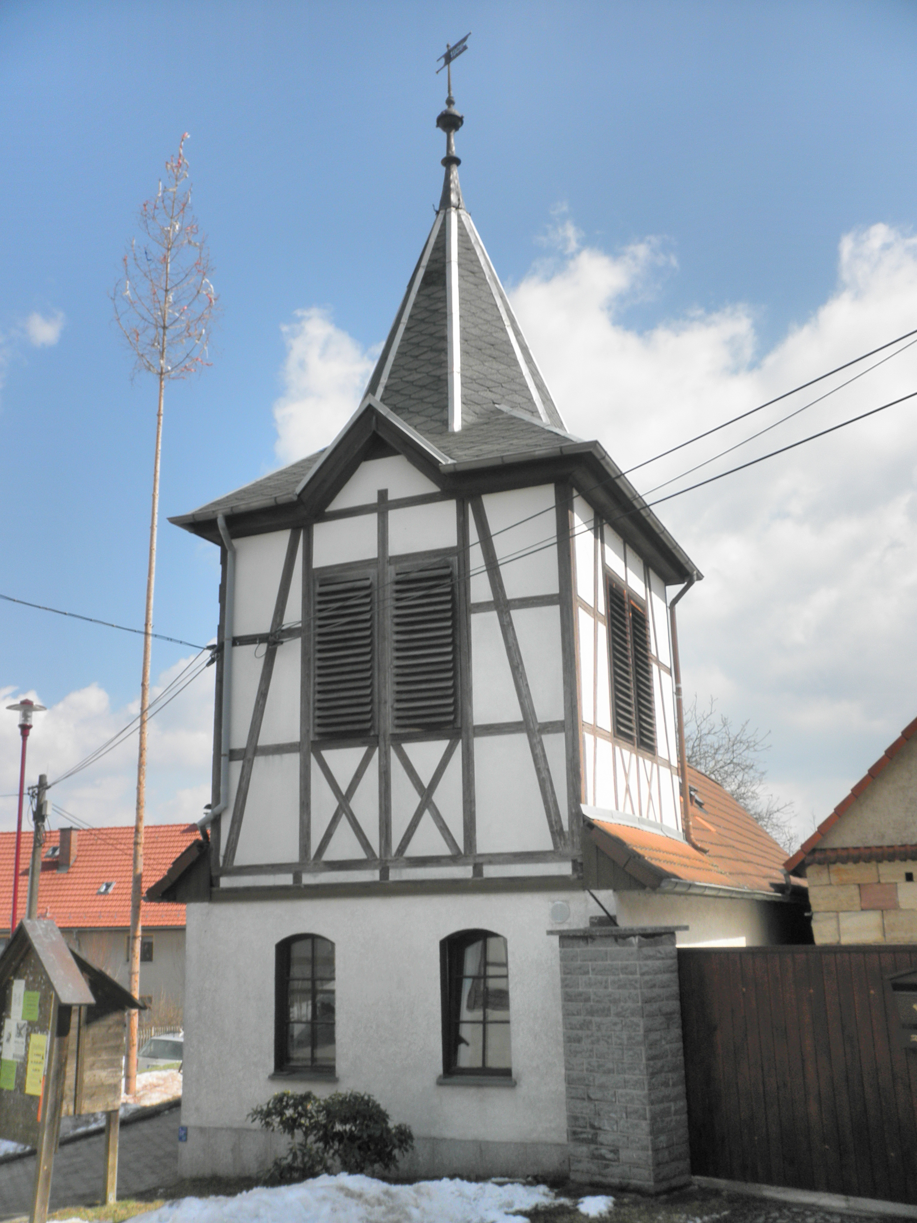 Bell Tower in Magersdorf (Unterbodnitz) in Thuringia